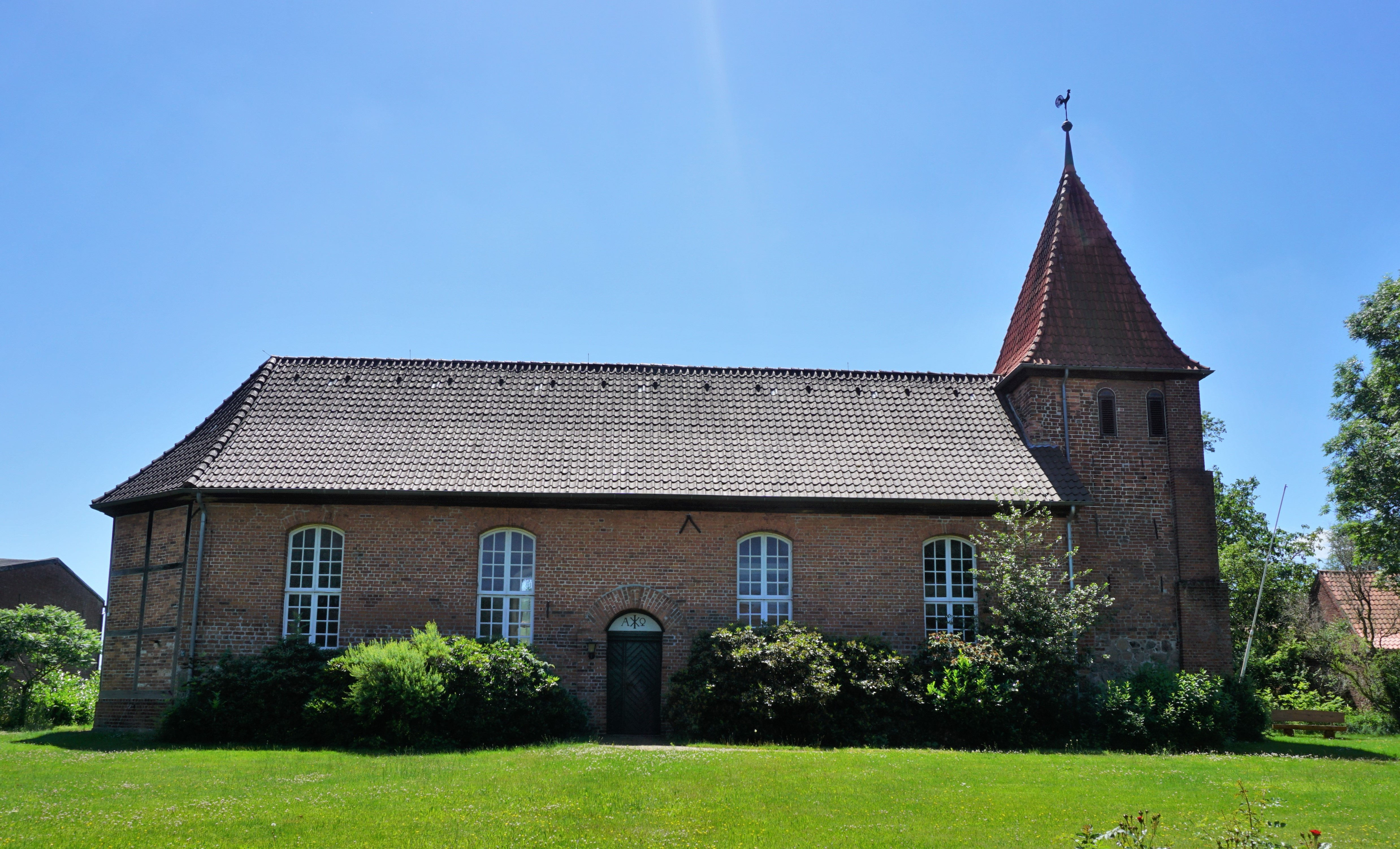 Northern view of the Saint Vitus Church in Reinstorf, district of Lüneburg.